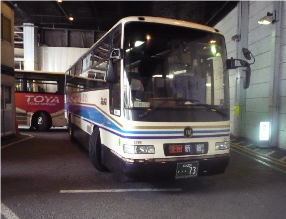 inabus minamiarupusugou shijukusta saouth